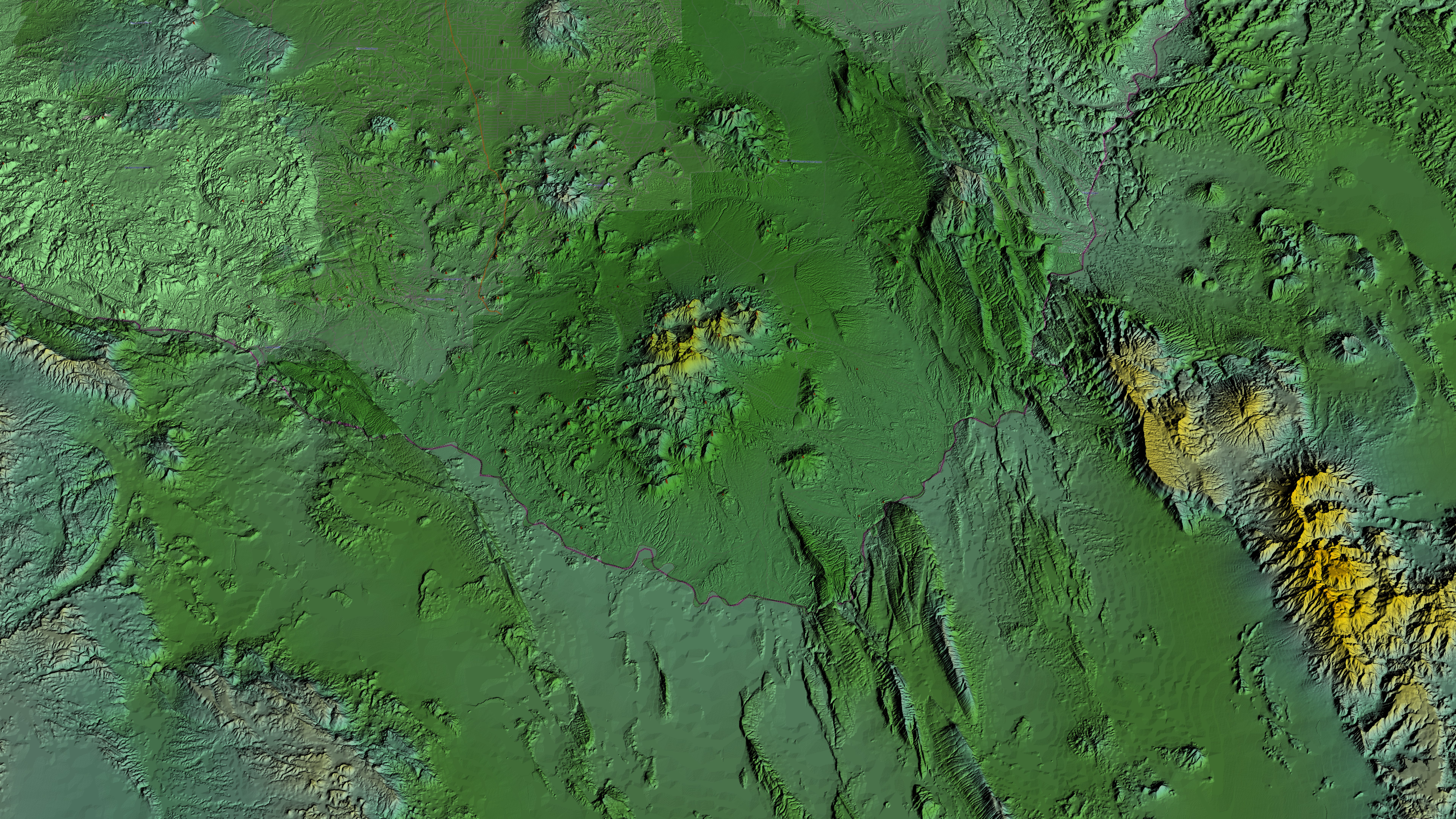 Big Bend National Park, computer image generated using TruFlite